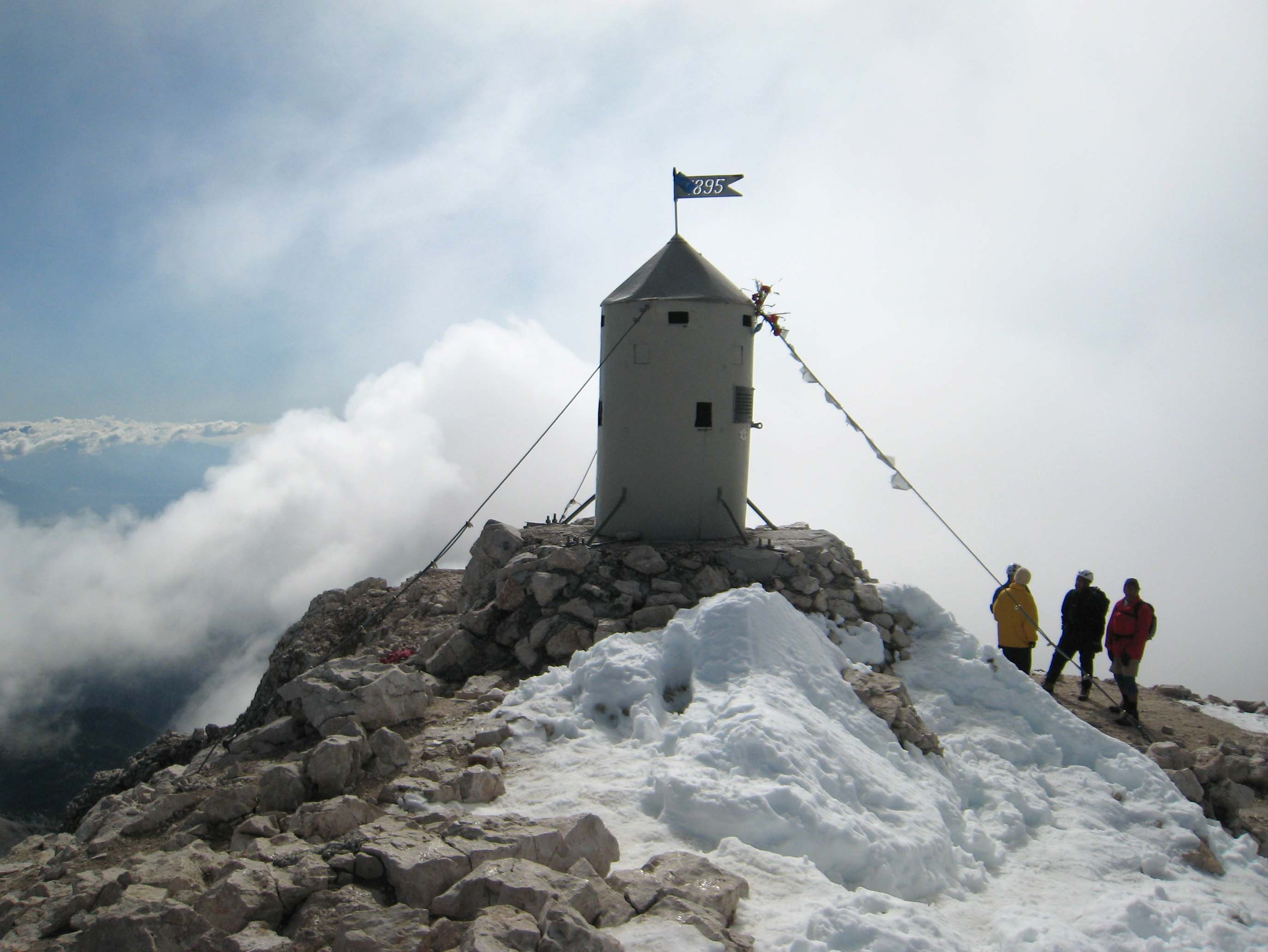 View of the Aljažev stolp and the clouds